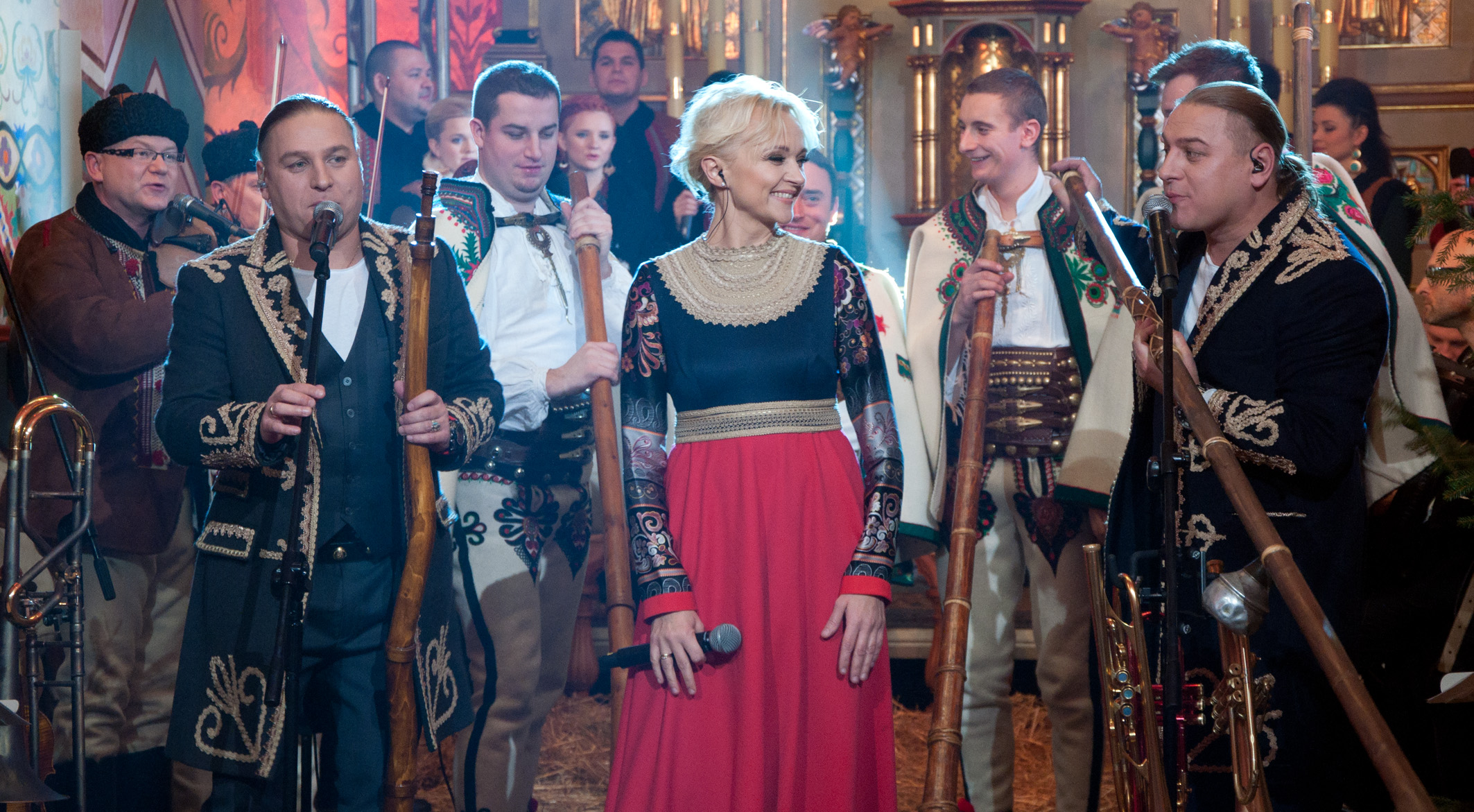 Golec uOrkiestra in Bukowina Tatrzanska